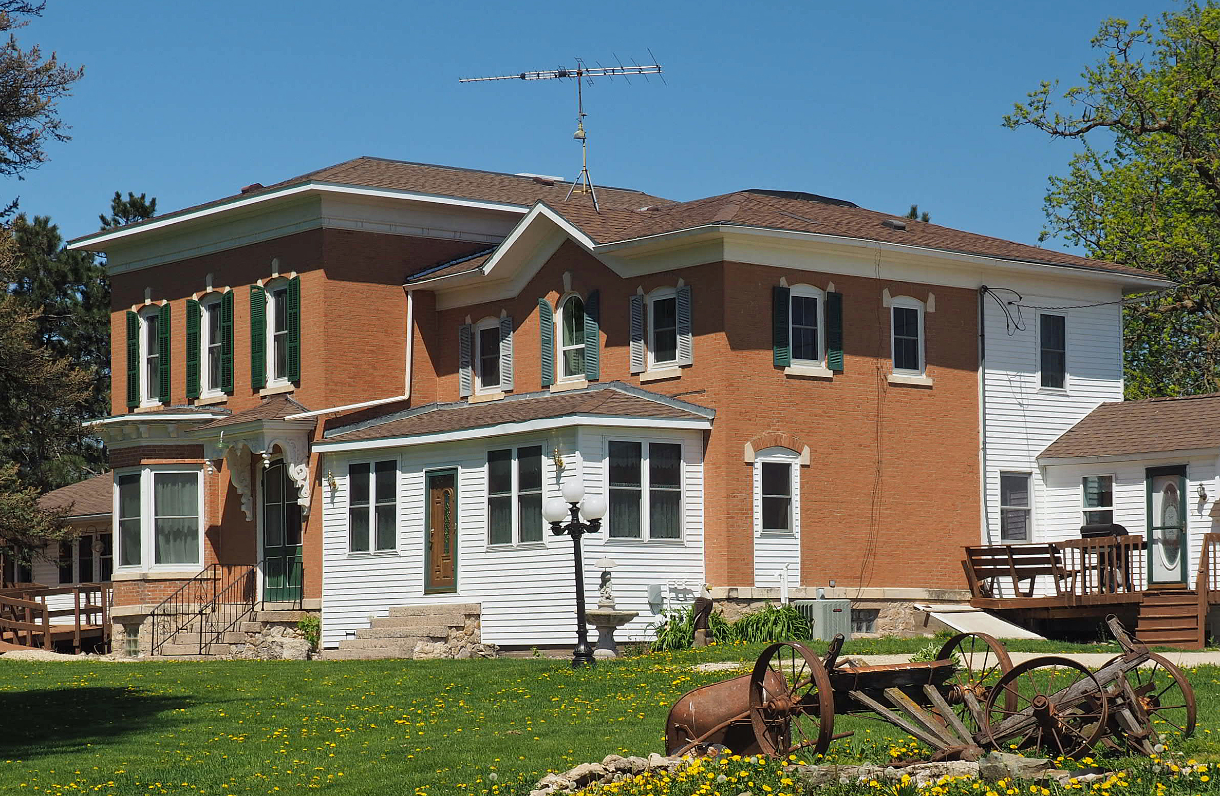 Benjamin Ellsworth House, 100 Highway 14, Utica, Minnesota, USA. Viewed from the southeast.